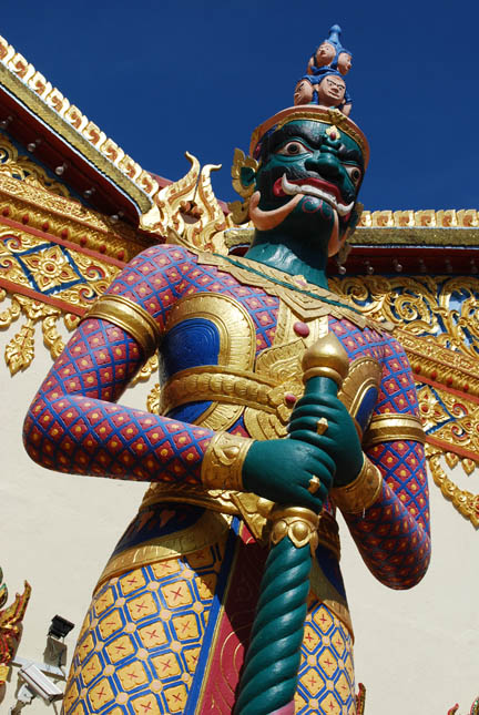 A temple guardian at Wat Chaiyamangalaram Thai Temple, Penang